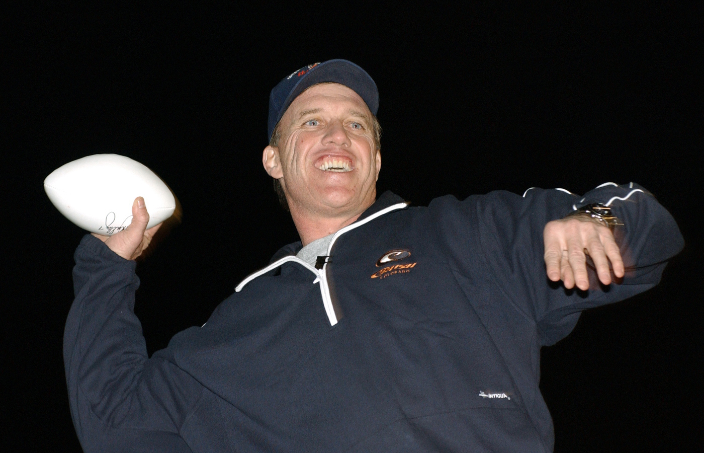 John Elway tosses footballs to the crowd during the Chairman's United Service Organizations Holiday Tour here Dec. 14.